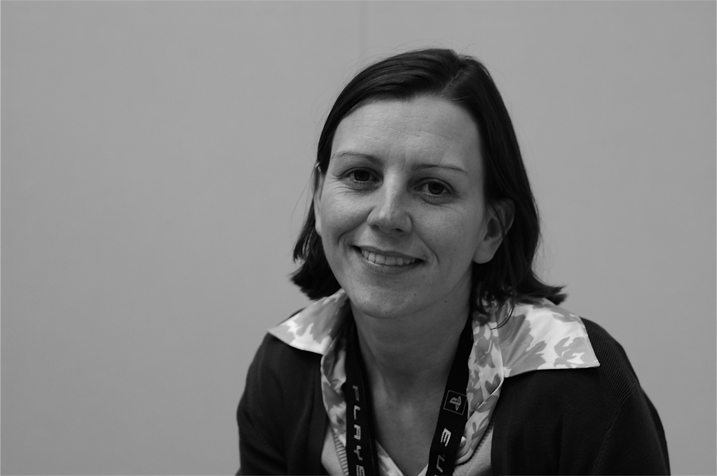 Fiona Sperry is the new General Manager of Electronic Arts' UK studio, based in Chertsey. Until recently, she was the studio boss of Criterion Games, which made titles like the Burnout series and Black.